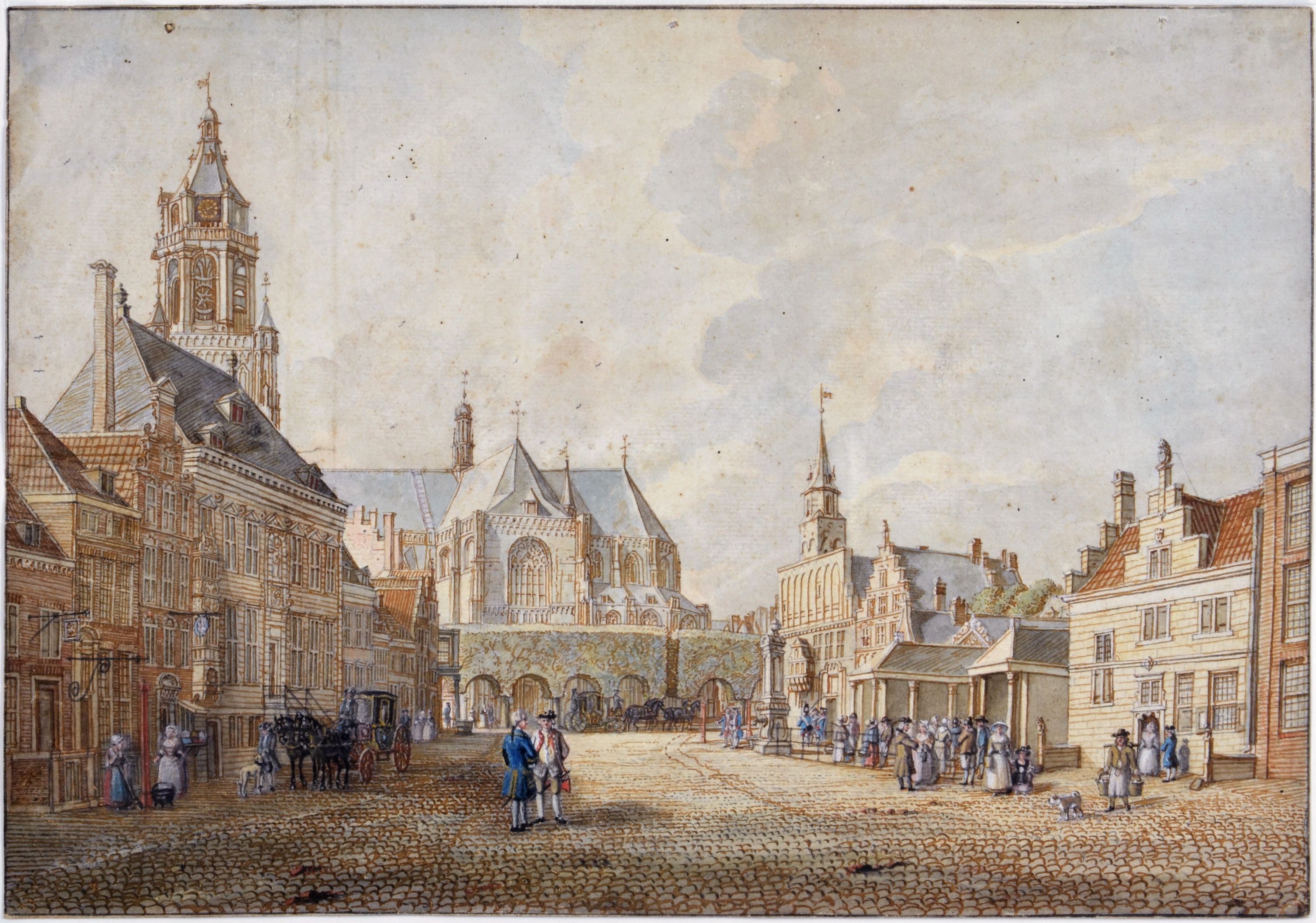 The Grote Markt in Arnhem from the south ca. 1742